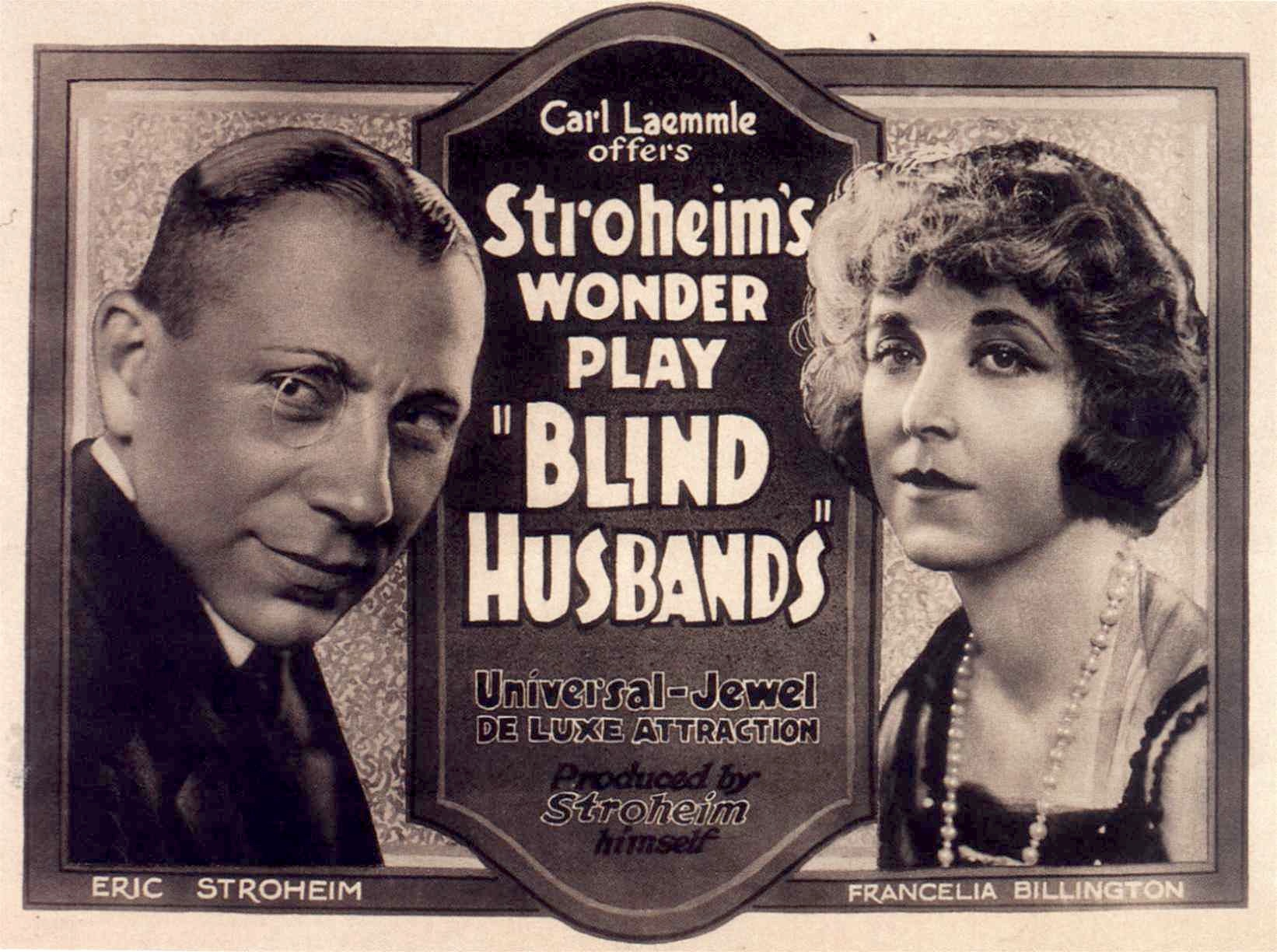 Blind Husbands is a 1919 drama film directed by Erich von Stroheim. This is a monochrome movie poster.